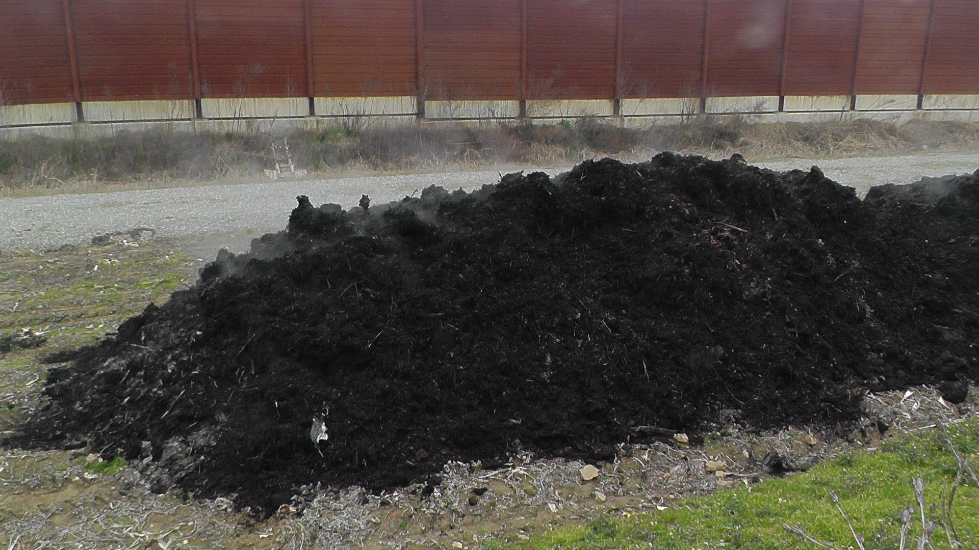 Compost for organic fertilization